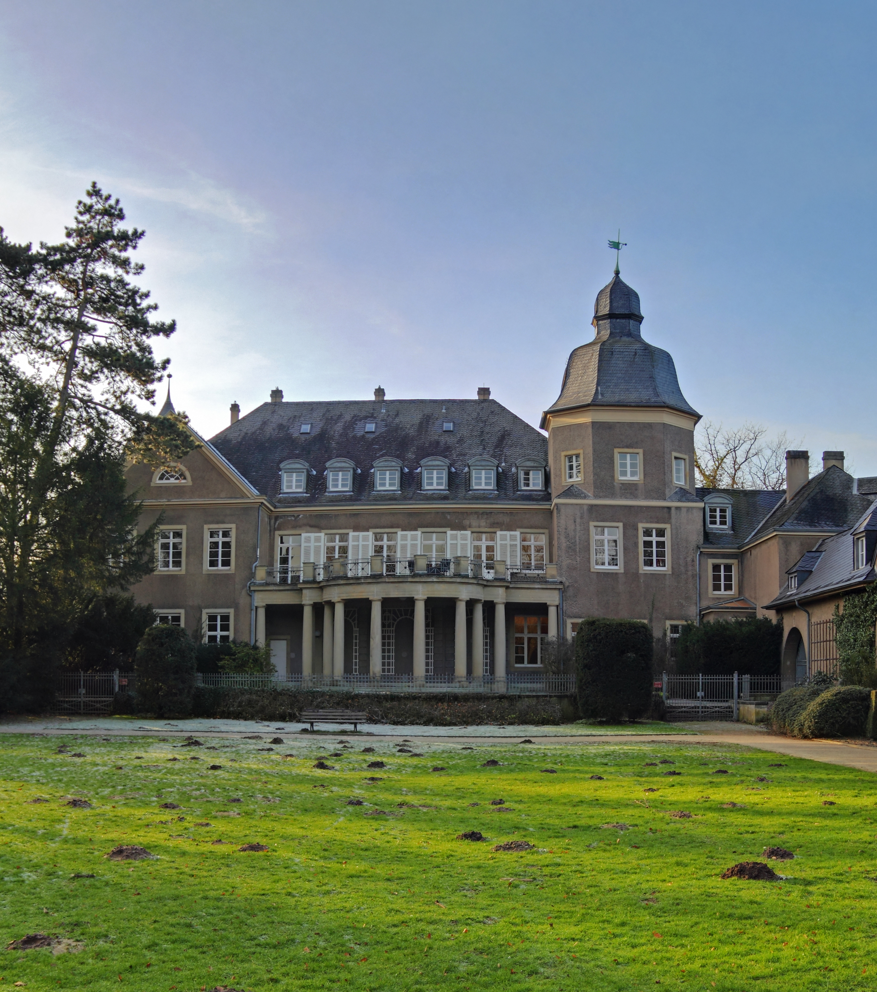 Garath Castle in Düsseldorf. Exposure fusion of 3 shots with PTGui Pro.